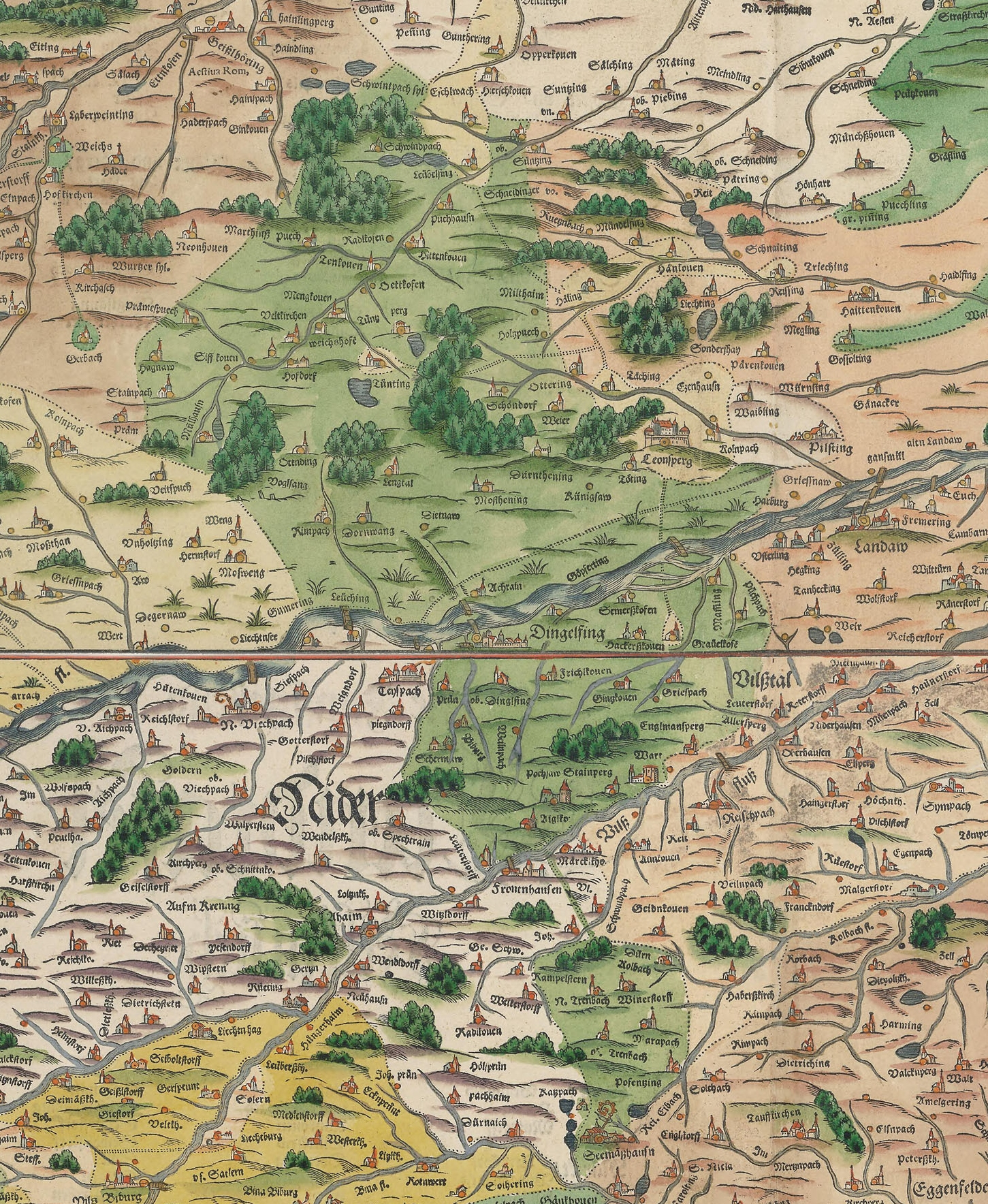 derivative